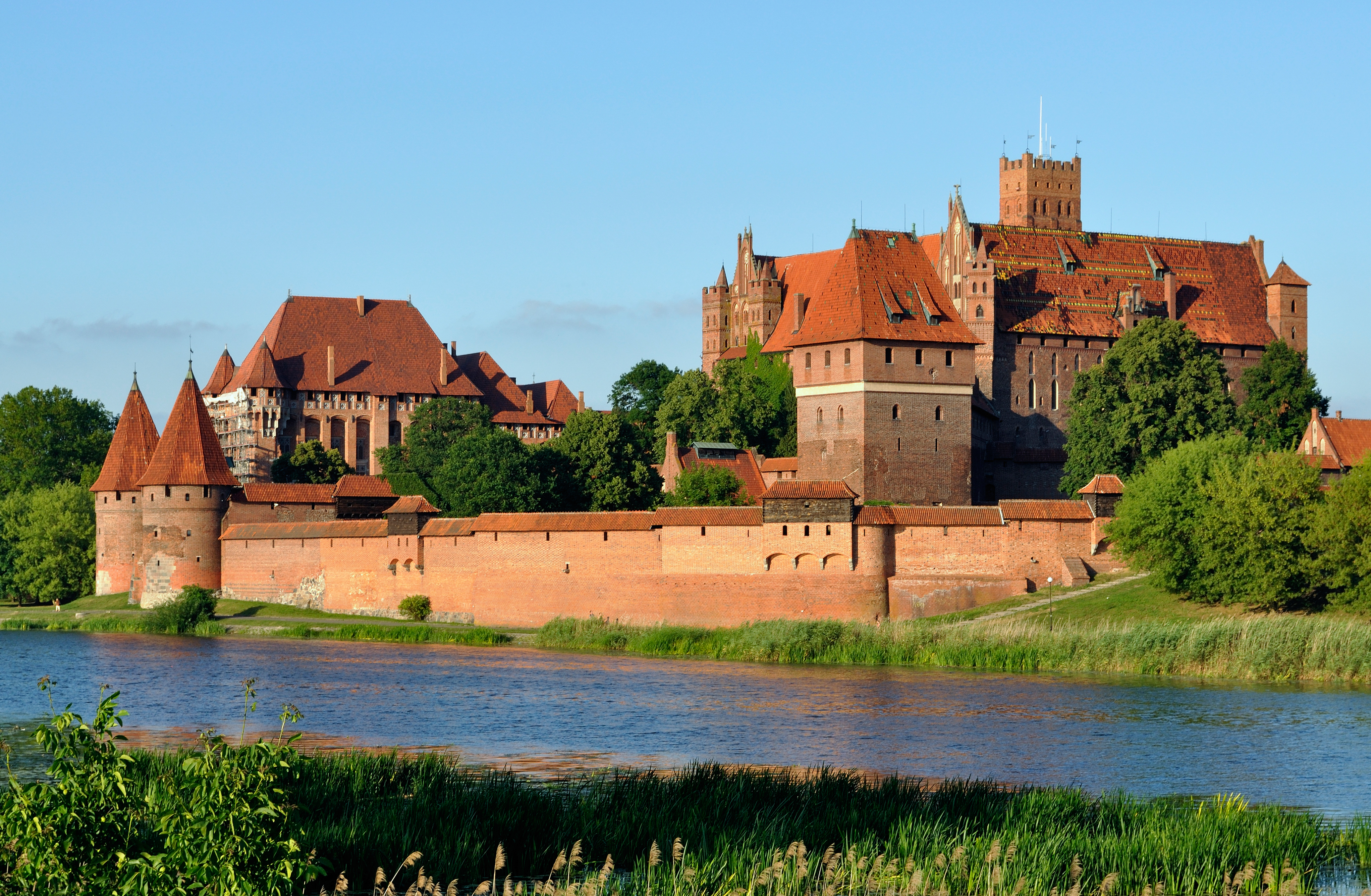 Picture taken in Malbork after Wikimania 2010 conference. Panorama of Malbork Castle, Żuławy region, Poland.